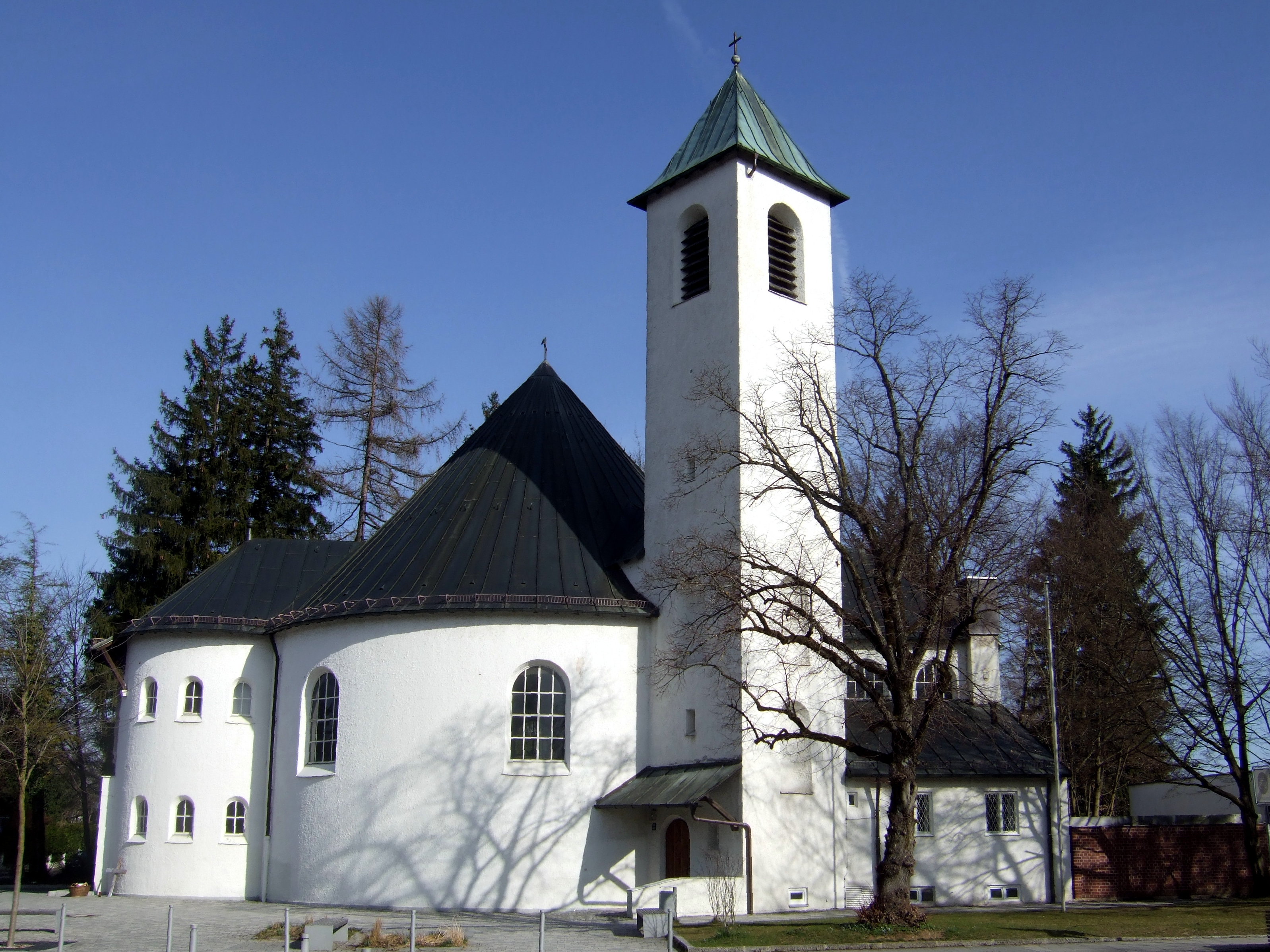 Saint Otto church (Ottobrunn), as seen from the east